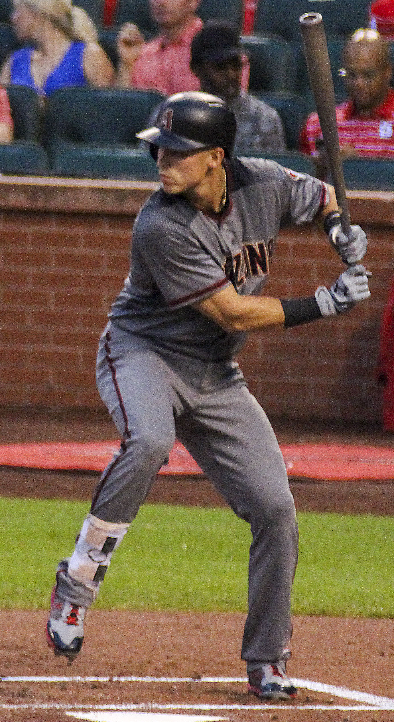 Jake Lamb of the Arizona Diamondbacks, 2017.